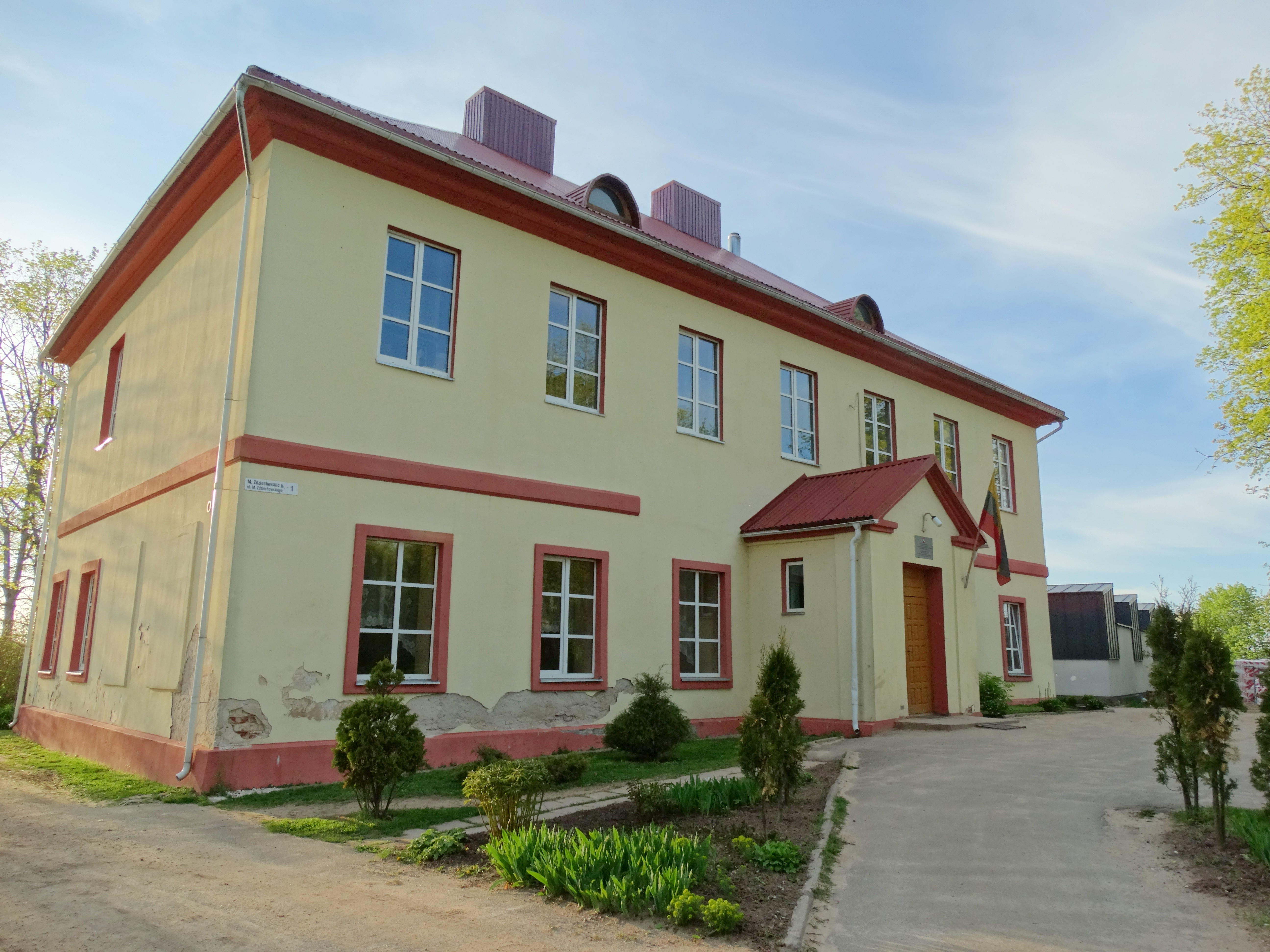 Basic school, Sudervė, Lithuania